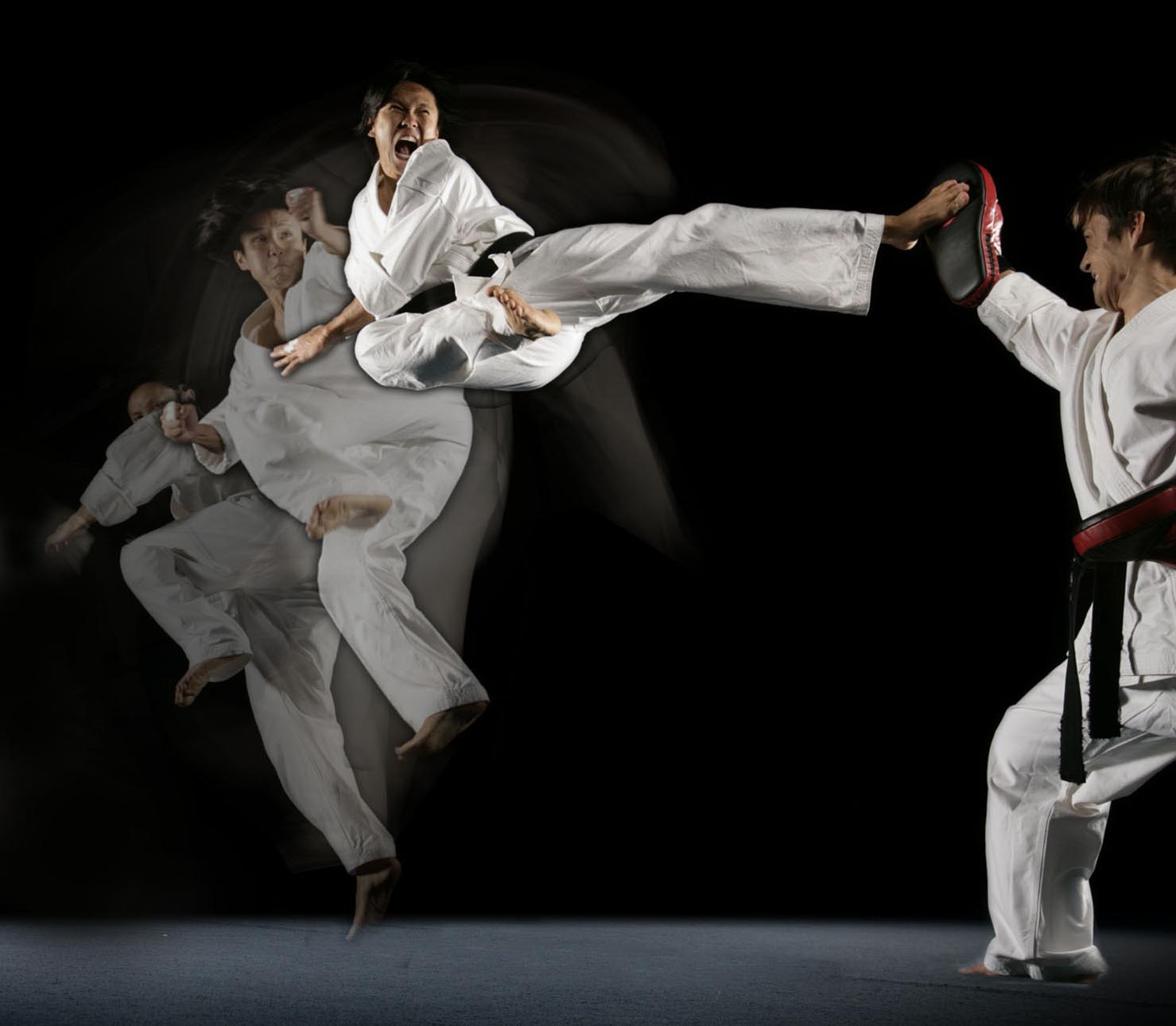 Steven Ho executing a Jump Spin Hook Kick. Steven Ho: Jump Spin Hook Kick. Martial Artist Steven Ho kicks a focus mitt. Steven Ho, martial artist and action choreographer.